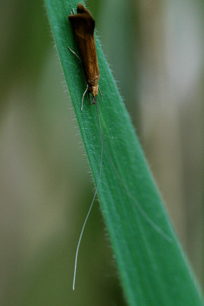 Picture taken in Commanster, Belgian High Ardennes . Species: Leptocerus interruptus